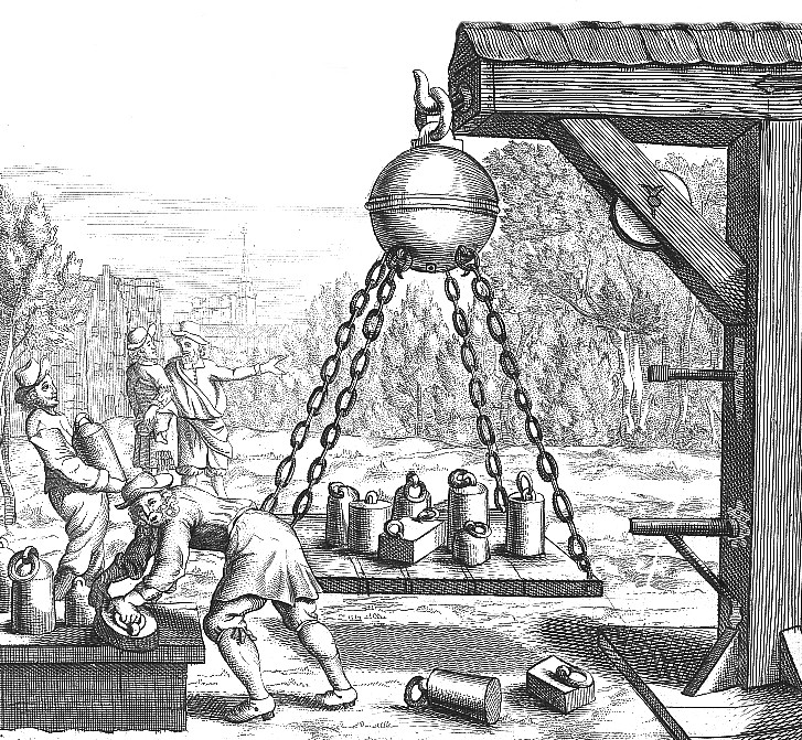 Experiment to demonstrate the effect of atmospheric air pressure: the Magdeburg half-spheres.